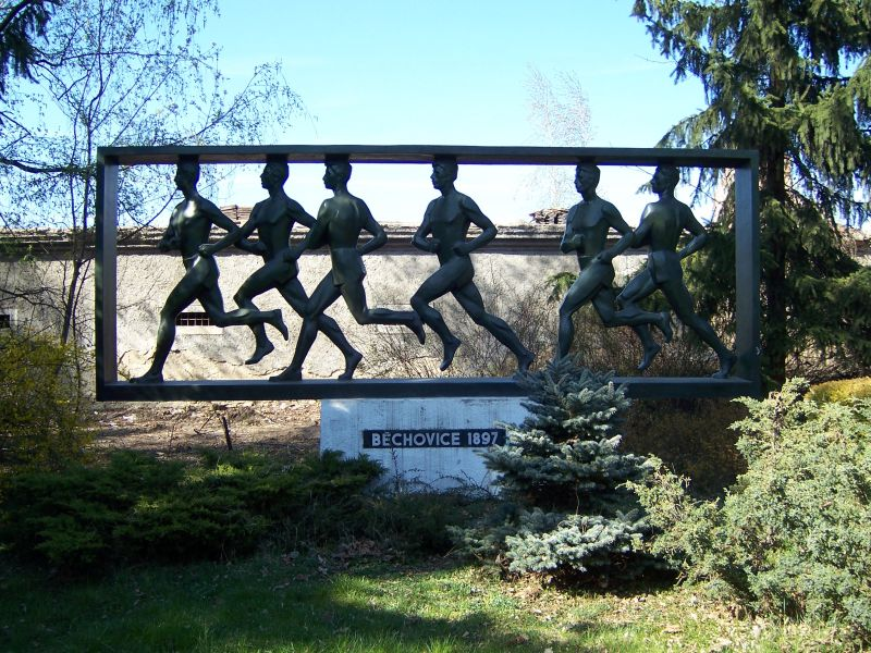 Prague, Běchovice, memorial to a running race.